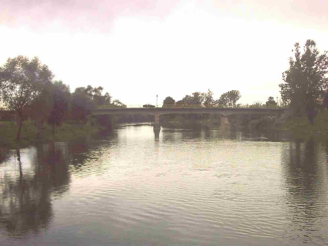 The river Sana near the bridge in Prijedor